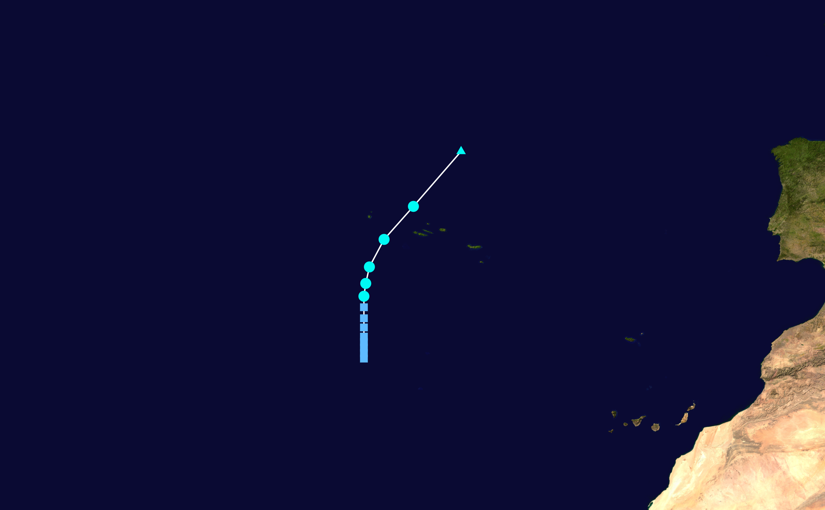 Tropical Storm Irma (1978) track. Uses the color scheme from the Saffir-Simpson Hurricane Scale.